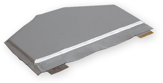 Lithium-Polymer-Accumulator with an unusual six edged shape for underwater vehicles.